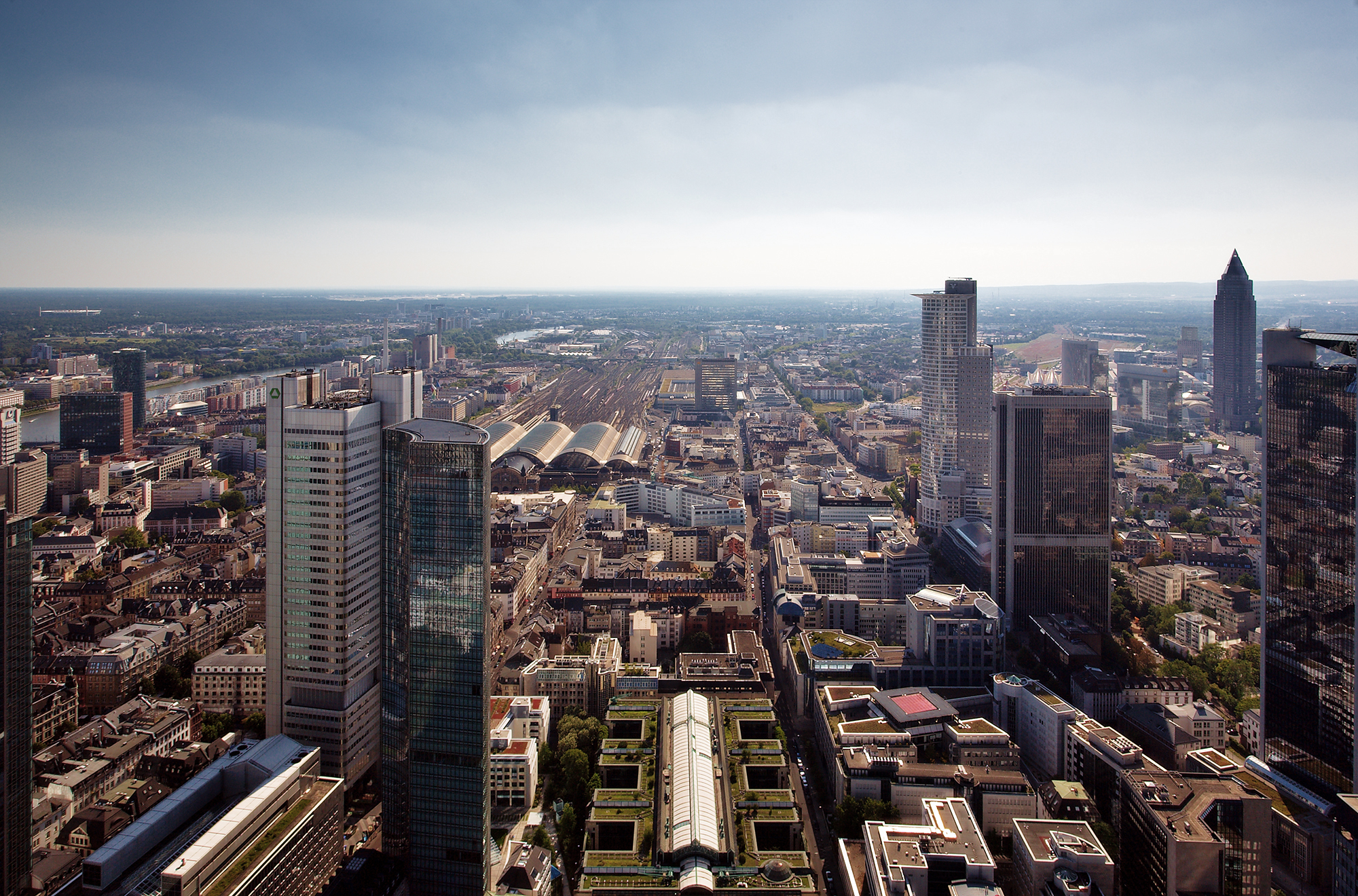 view from Main Tower, Frankfurt, Germany, looking west towards Frankfurt Central station (FFM HBF)